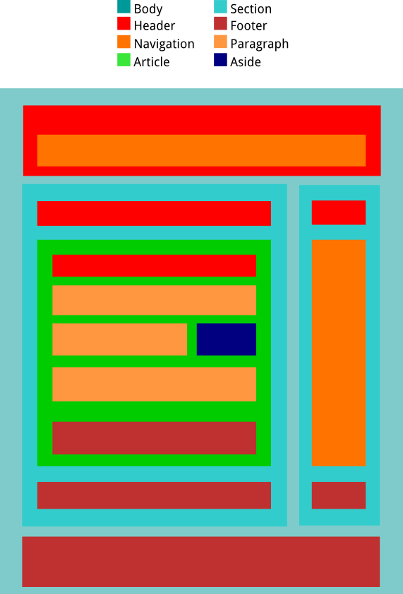 Diagram of the HTML5 block elements: body, header, navigation, section, article, paragraph, aside, and footer.